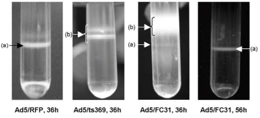 cscl density gradient centrifugation